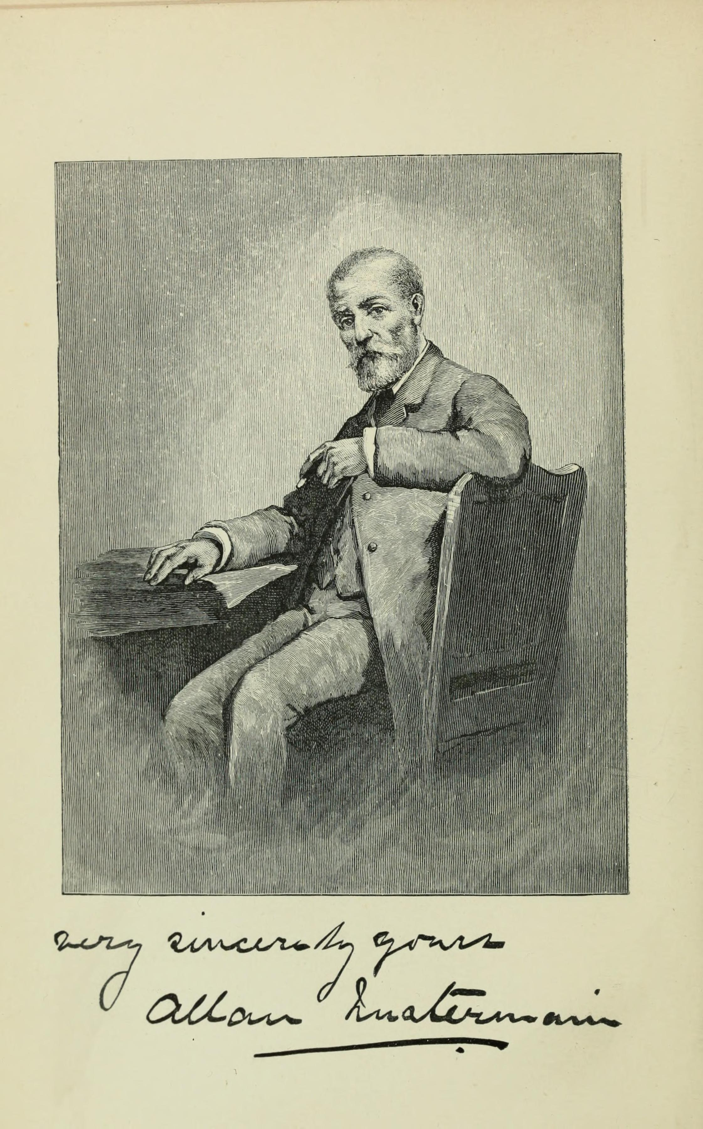 Frontispiece of the novel Allan Quatermain, published in 1887